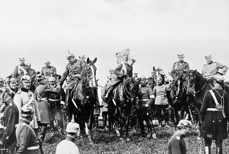 The Imperial German Army 1890 - 1913 The Kaiser greeting his staff officers during the manoeuvres of 1905. On the right is the Chief of General Staff von Moltke.